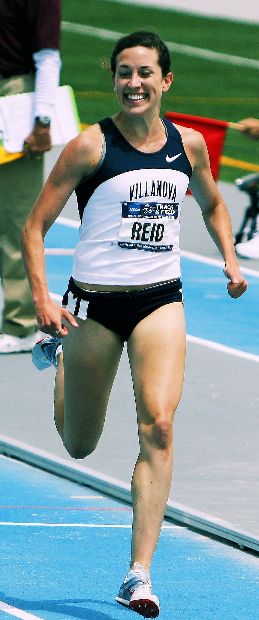 The winner of the women's 1500m race a few meters before the finish line. I took plenty of "action" photos at the recent NCAA track and field championship. But I decided to play around with some other things I shot to create this series: Scenes from a Track Meet. No real action, just bits and pieces of the event to give a sense of its whole. I tried to give each of the photos a cross-processed look, too, just to give this a much different feel than the usual sports photography. I'll be posting a handful of these over the next few days.